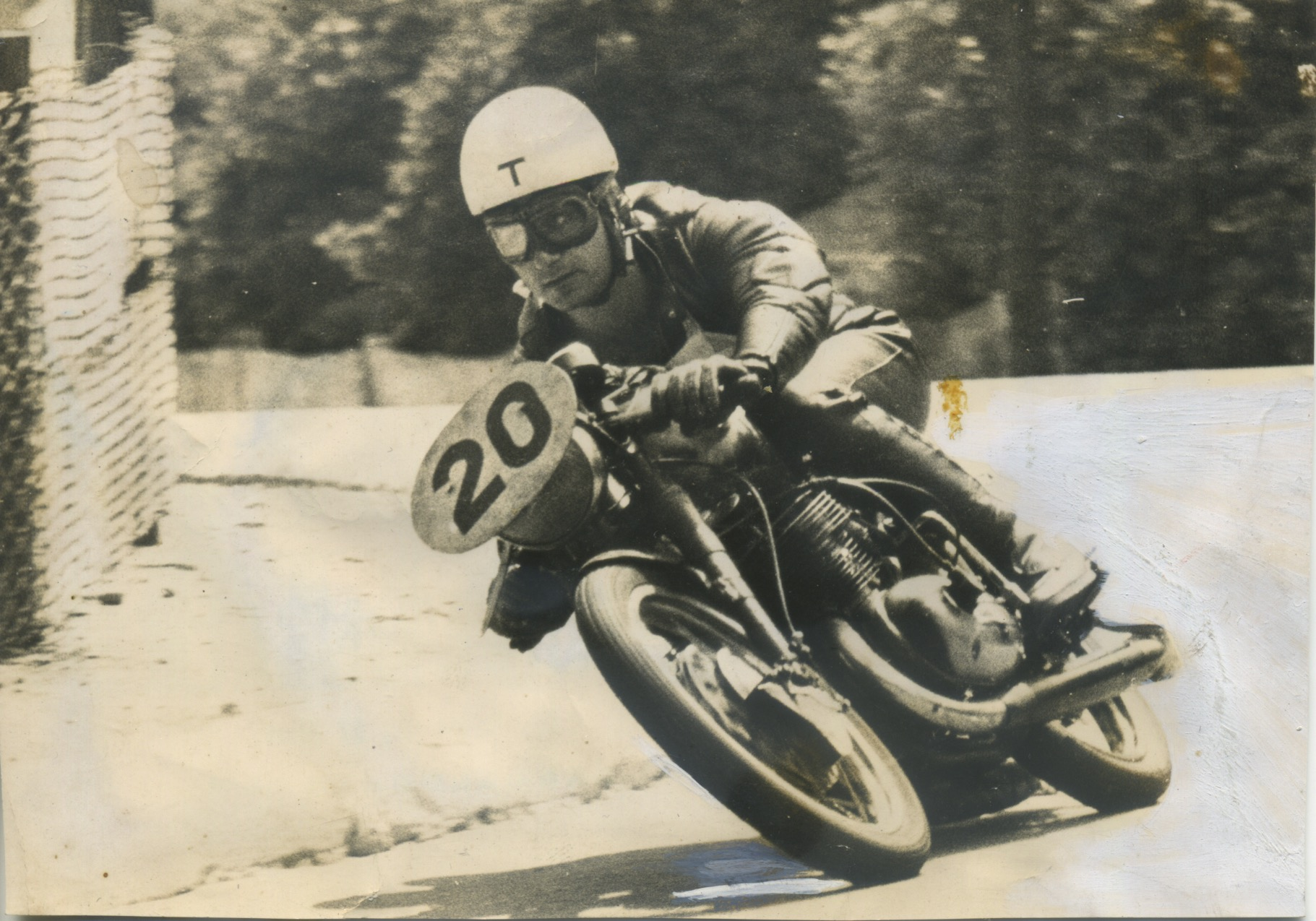 Francesc Tombas on his Derbi 350 during the 1958 24 Hores de Montjuïc